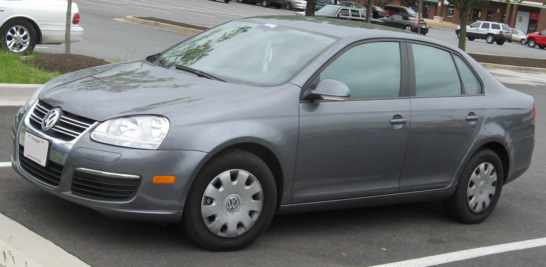 2006-2007 Volkswagen Jetta photographed in USA.